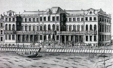 Christofer Marselius. Apraxin Palace in St Petersburg, en:1725.